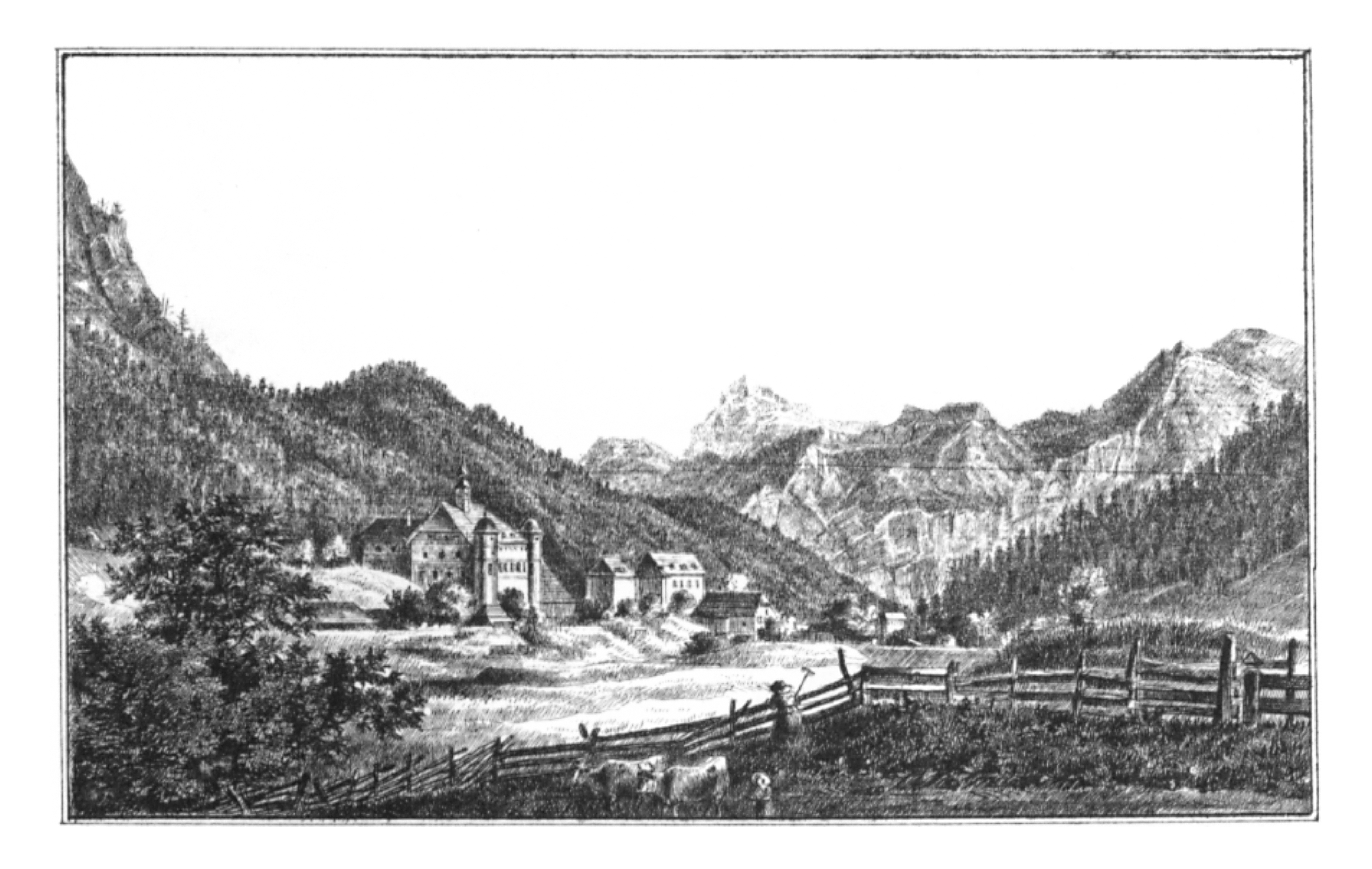 J. F. Kaiser - lithographirte Ansichten der Steyermärkischen Städte, Märkte und Schlösser, Graz 1824-1833 Joseph Franz Kaiser (1786–1859) Alternative names J. F. KaiserDescriptionAustrian printer and editorDate of birth/death 11 March 1786 19 September 1859Location of birth/death Graz (Styria) GrazAuthority control : Q1499963 VIAF: 30629353 ISNI: 0000 0000 3083 0153 LCCN: n87141671 GND: 129880159 NLP: A24960305 WorldCat creator QS:P170,Q1499963 . Scanprojekt Community Projektbudget 2012 This scan or this PDF-file was created within the GLAM-project Bookscanning, supported by Wikimedia Germany and Wikimedia Austria as a part of the community-project to capture books, documents and pictures which are not eligible to copyright or for which the copyright has expired. This document describes or depicts an object which is located in Austria today. Send requests for uncompressed scans to Hubertl. This work is in the public domain in its country of origin and other countries and areas where the copyright term is the author's life plus 100 years or less. You must also include a United States public domain tag to indicate why this work is in the public domain in the United States. This file has been identified as being free of known restrictions under copyright law, including all related and neighboring rights.